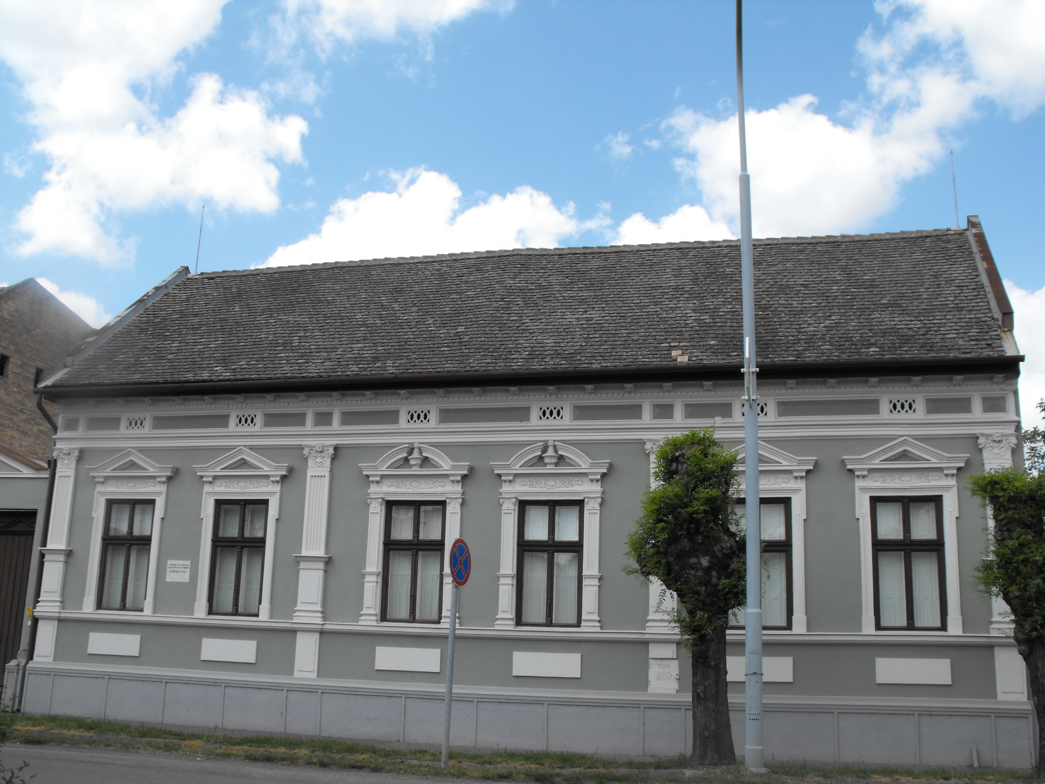 The Espersit House, museum of literature in Makó, Hungary.